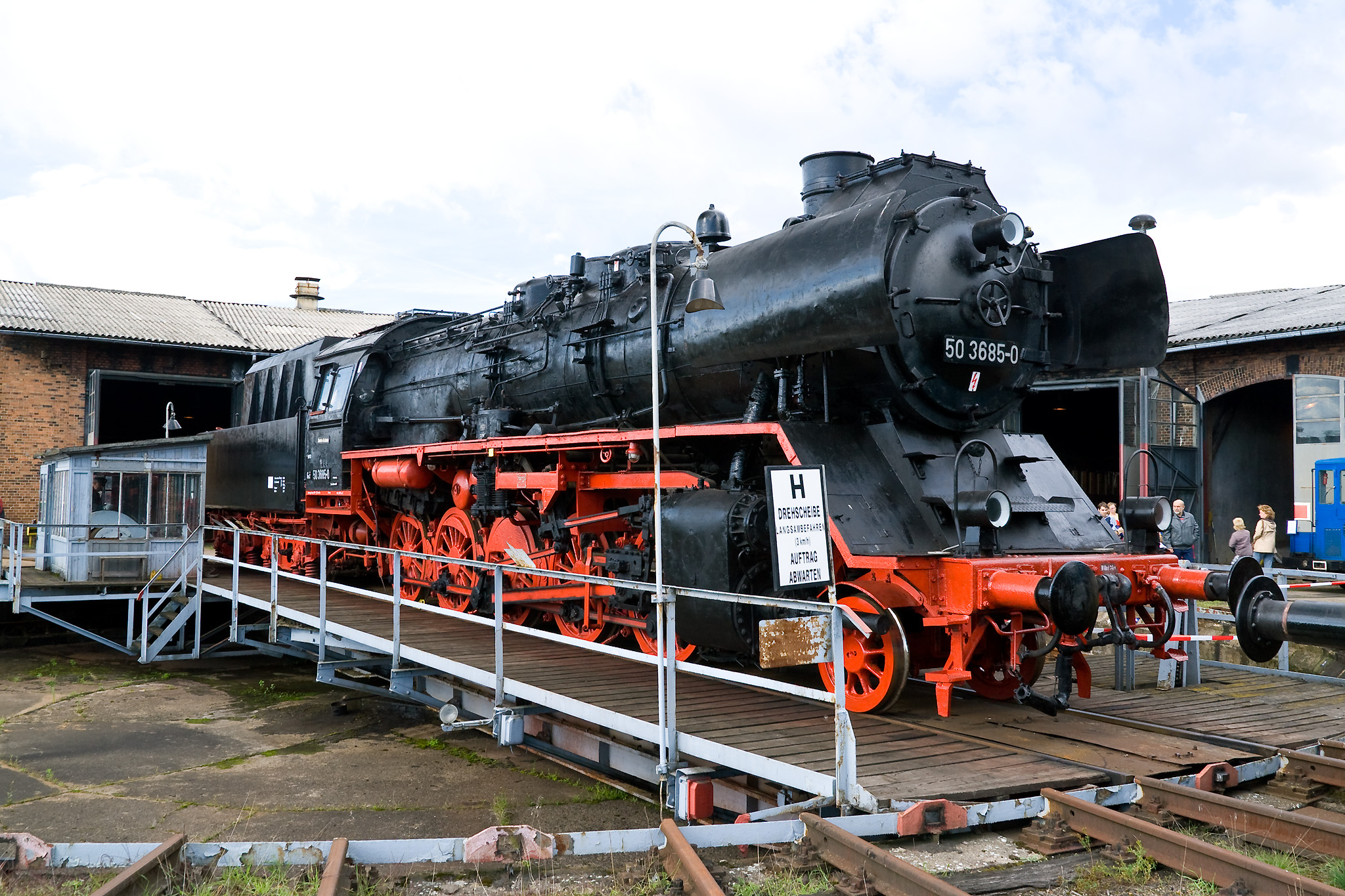 Steam lokomotive DR 50 3685-0 on the railroad turntable of the roundhouse in Salzwedel, Saxony-Anhalt, Germany.